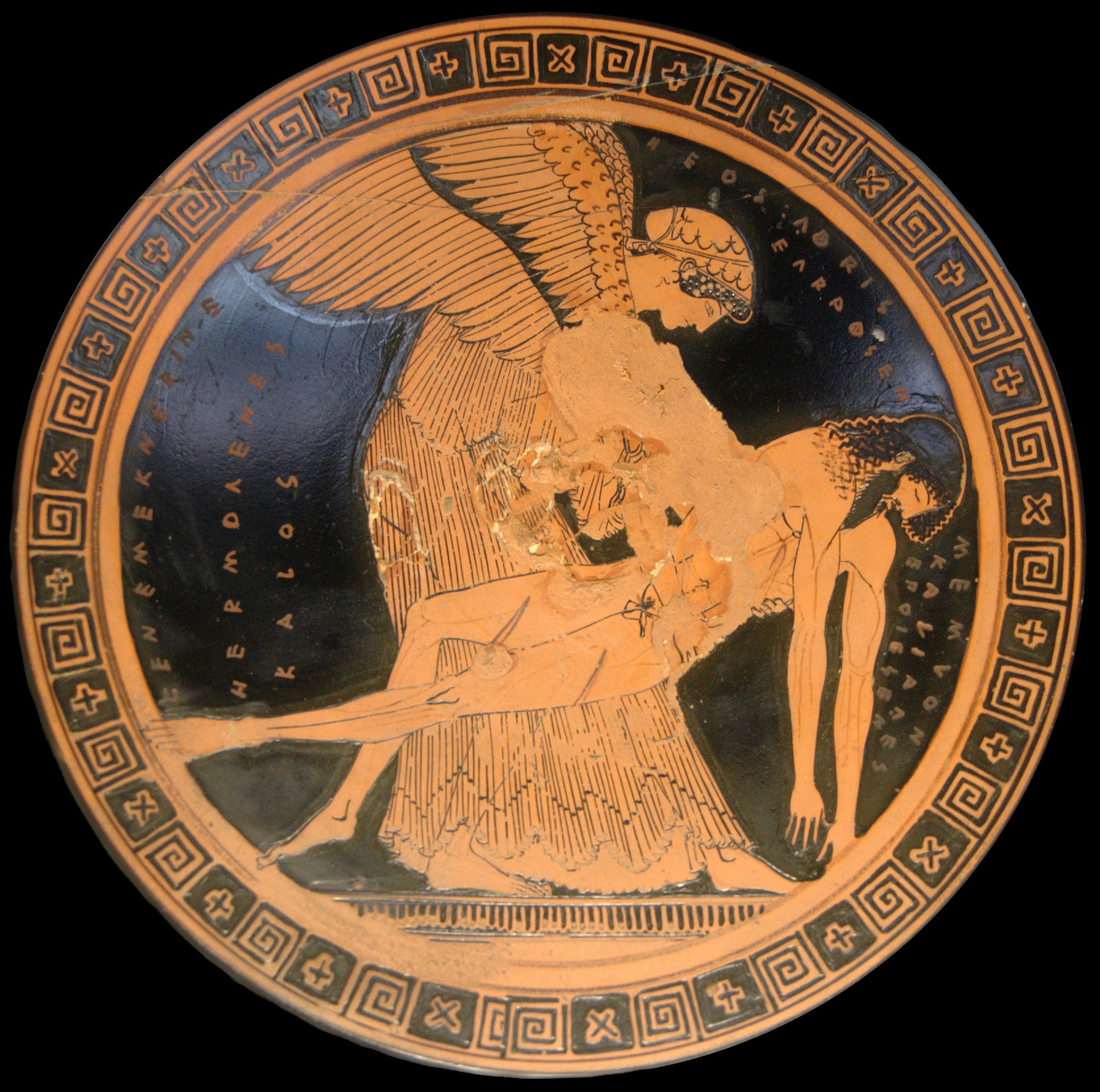 So-called “Memnon pieta”: Eos lifting up the body of her son Memnon. Kalos inscription. Interior from an Attic red-figure cup, ca. 490–480 BC. From Capua, Italy.